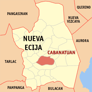 Map of Nueva Ecija showing the location of Cabanatuan